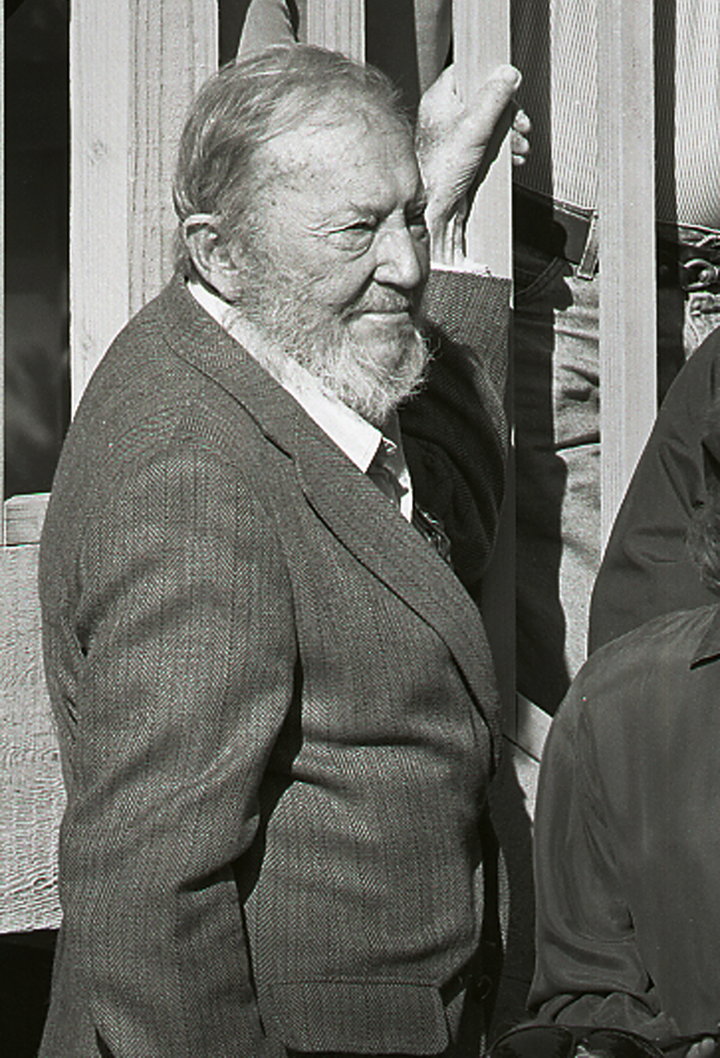 Morley Baer, with his photography workshop, Monterey, CA, Fall 1994